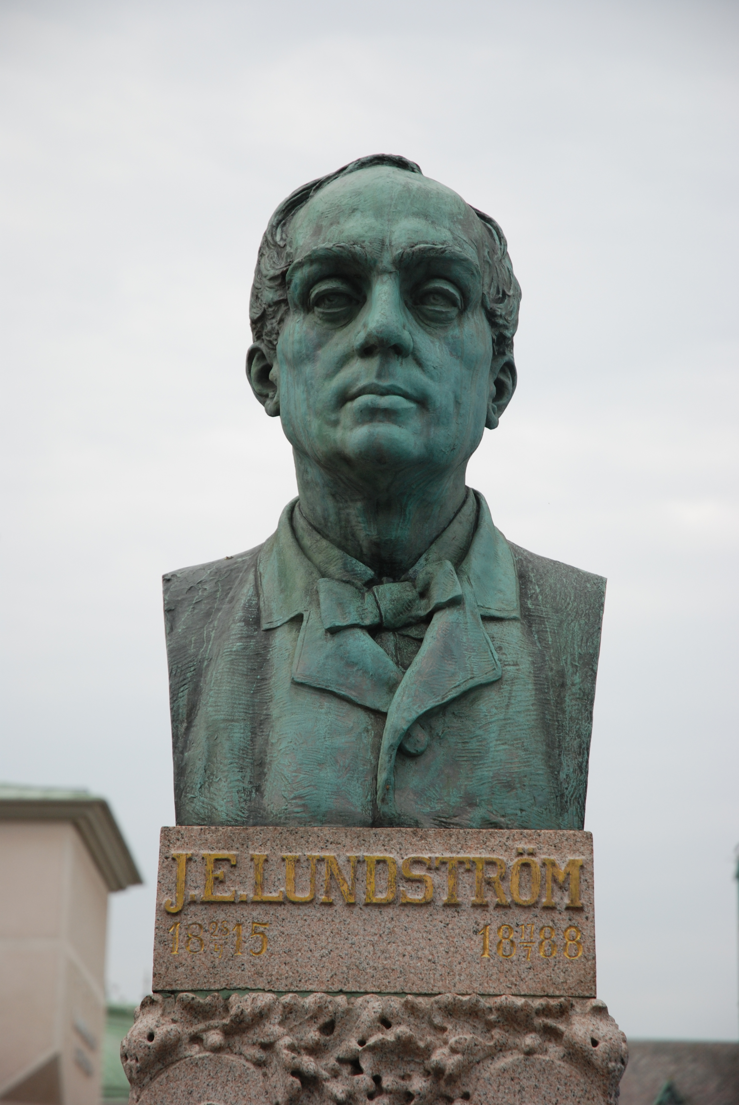 Bust of J E Lundström by John Börjeson, Jönköping